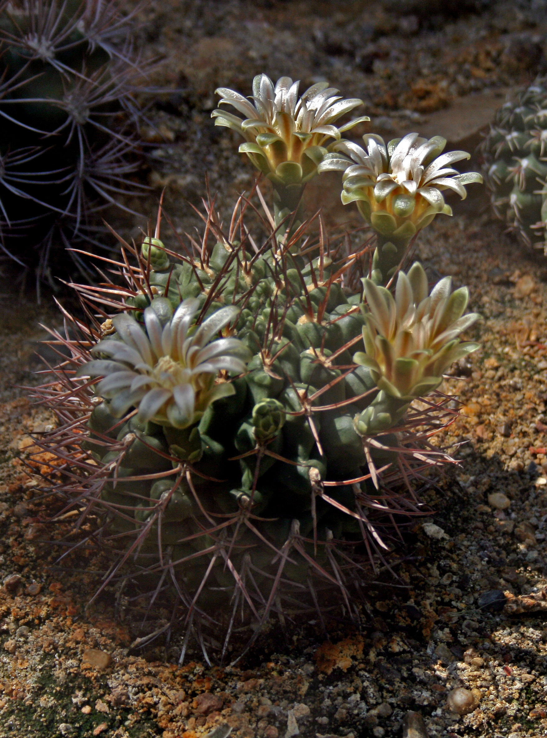 Cactus Gymnocalycium bodenbenderianum from the Botanical Gardens of Charles University, Prague